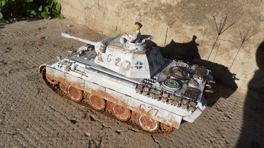 A Beobachtungspanzer Panther